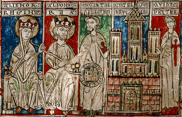 Alfonso VIII of Castile andEleanor of Plantagenet delivering Castle of Uclés to the Master ("magister") of the Order of Santiago Pedro Fernández. This is a miniature of the Tumbo Menor de Castilla, found in the Archivo Histórico Nacional in Madrid. It was found at three websites independently: and